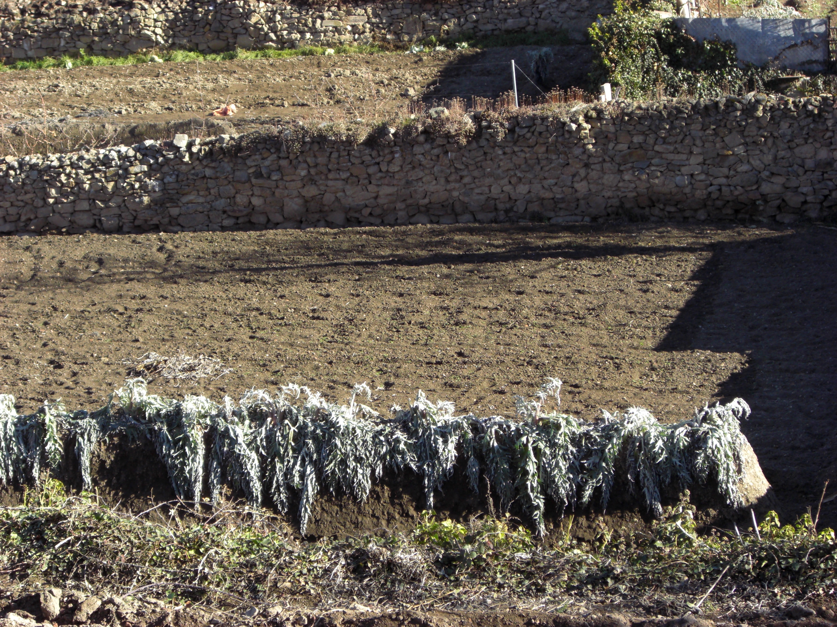 Ágreda, Soria, Spain